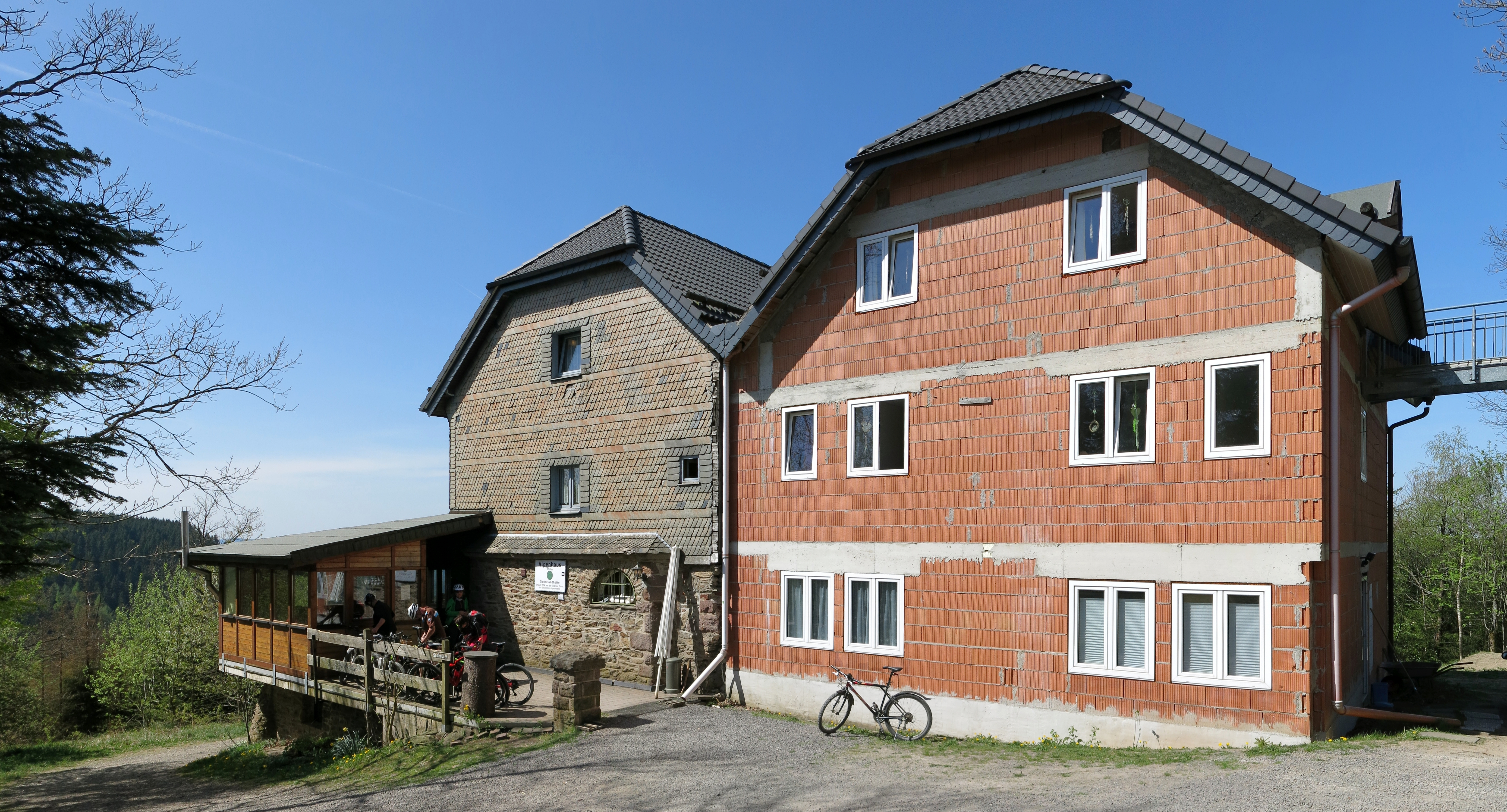 Alpenhaus in the Rothaar Mountains in the east of Kirchhundem